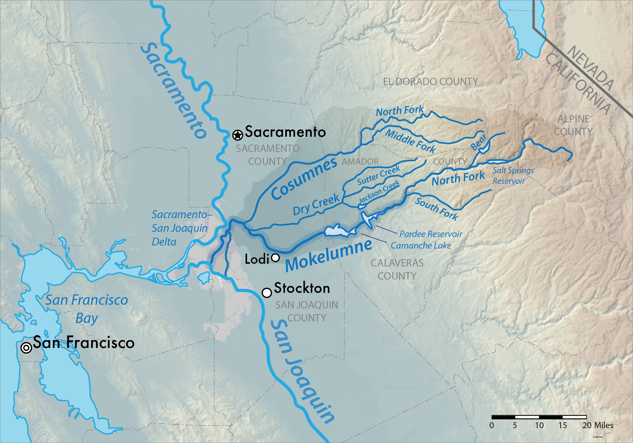 Map of the Mokelume & Cosumnes Rivers in Central California, USA. Shaded relief and coastline from US Geological Survey data.